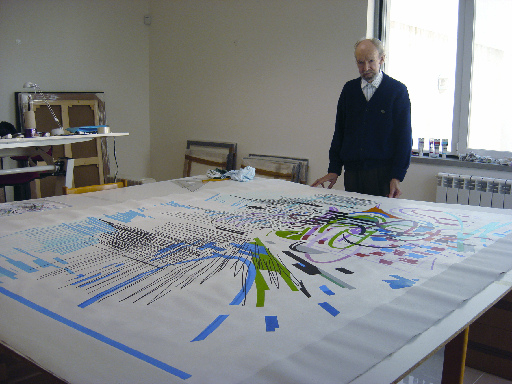 Nadir Afonso in his studio in Cascais on February 27 2007, standing next to his oversized canvas Sevilla, still unmounted. On the top left, a gouache on paper that served as the study. Photo by and courtesy of António Prates, of the António Prates Gallery, where the painting was exhibited.